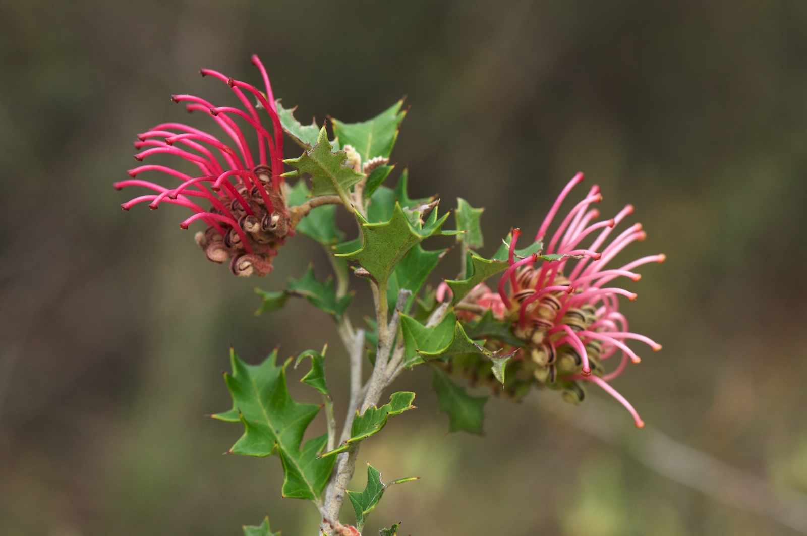 Photographed in the Grampians, Victoria, Australia